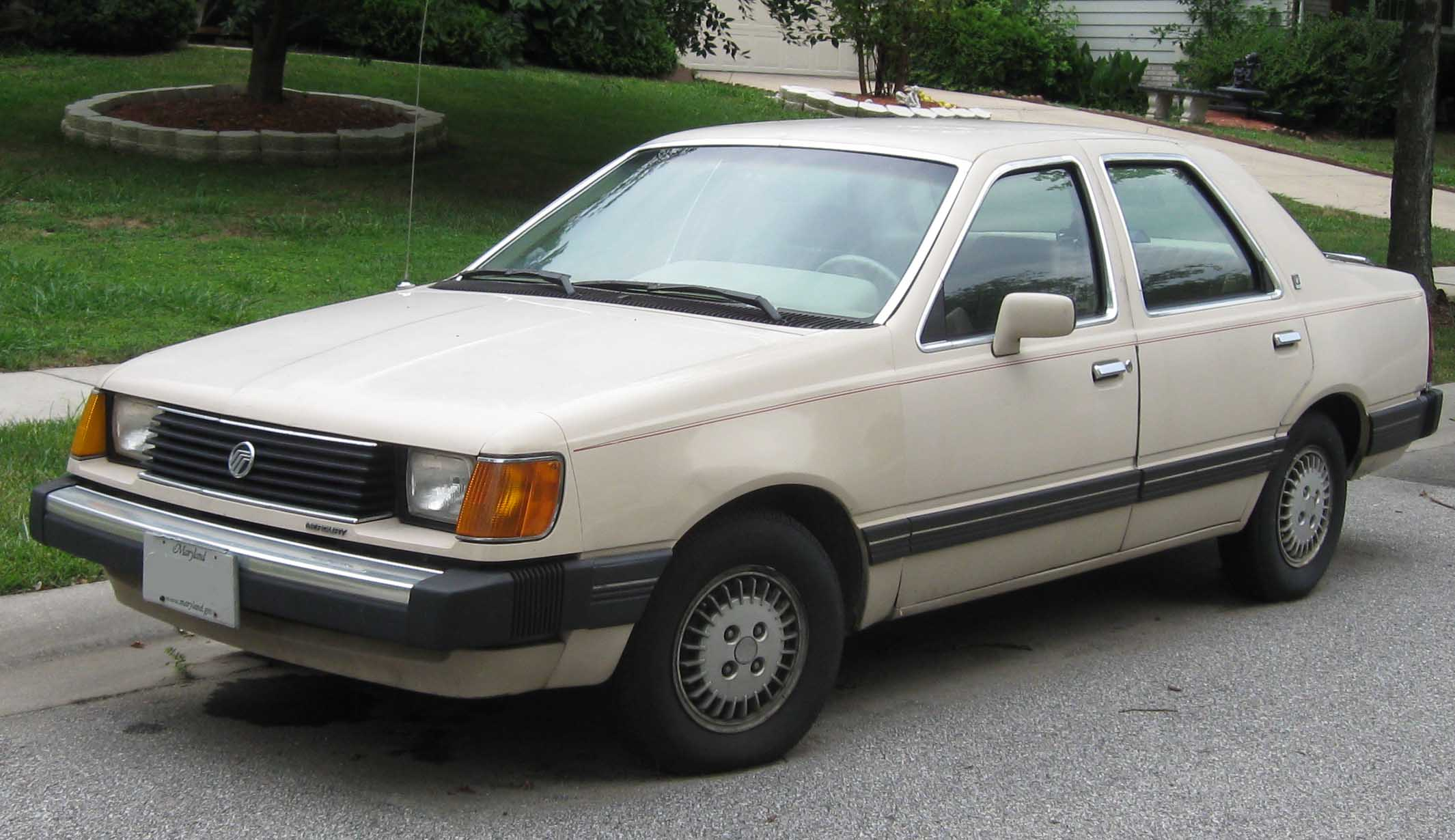 1984-1985 Mercury Topaz photographed in Fort Washington, Maryland, USA.